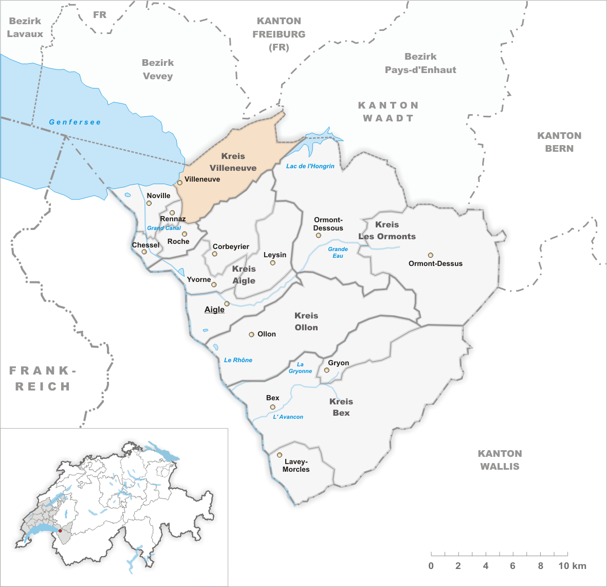 Municipality Villeneuve